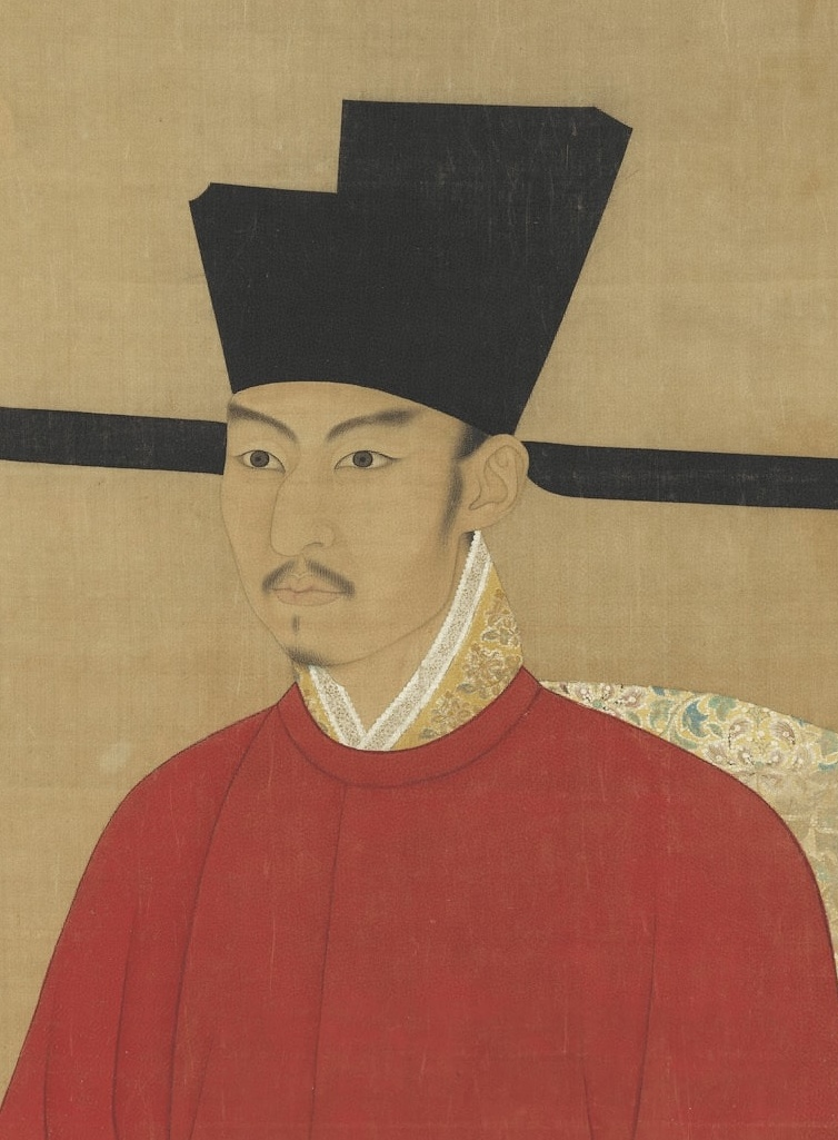 Emperor Zhezong of the Song dynasty.